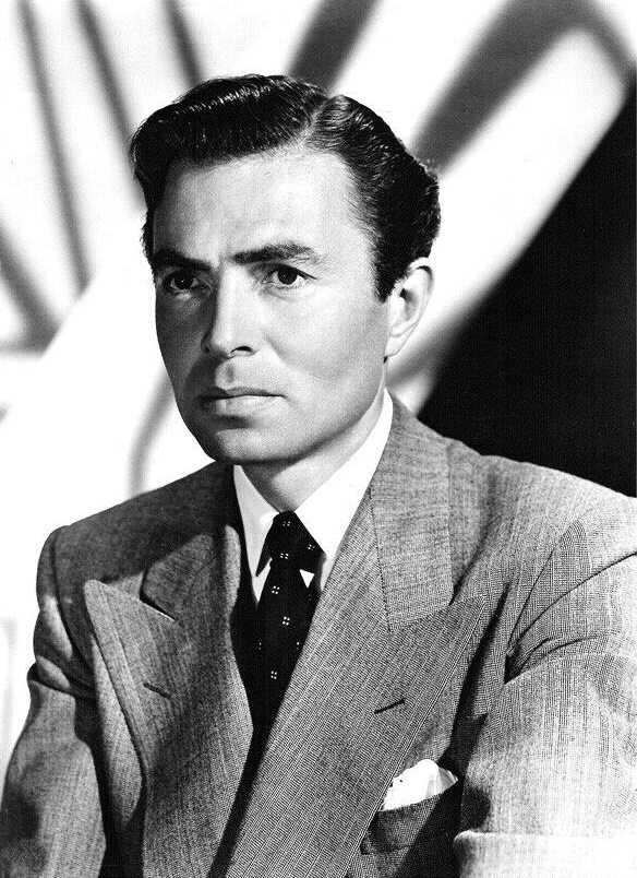 Studio publicity photo of British actor James Mason